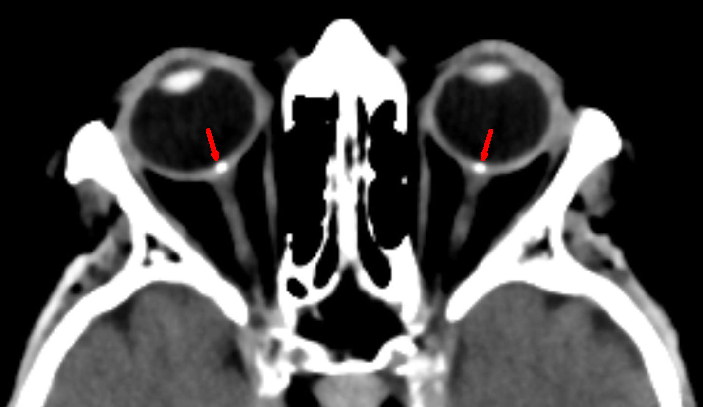 Bilateral optic disc drusen (optic nerve head drusen) in computed tomography of the orbit seen als dense spots at the optical disc. 73y female.